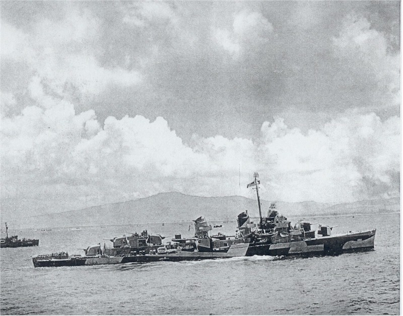 The U.S. Navy destroyer USS Norman Scott (DD-690) supporting the invasion of Saipan in June 1944. The ship is painted in Camouflage Measure 32, Design 13D.